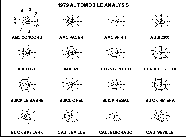 Sample star plot